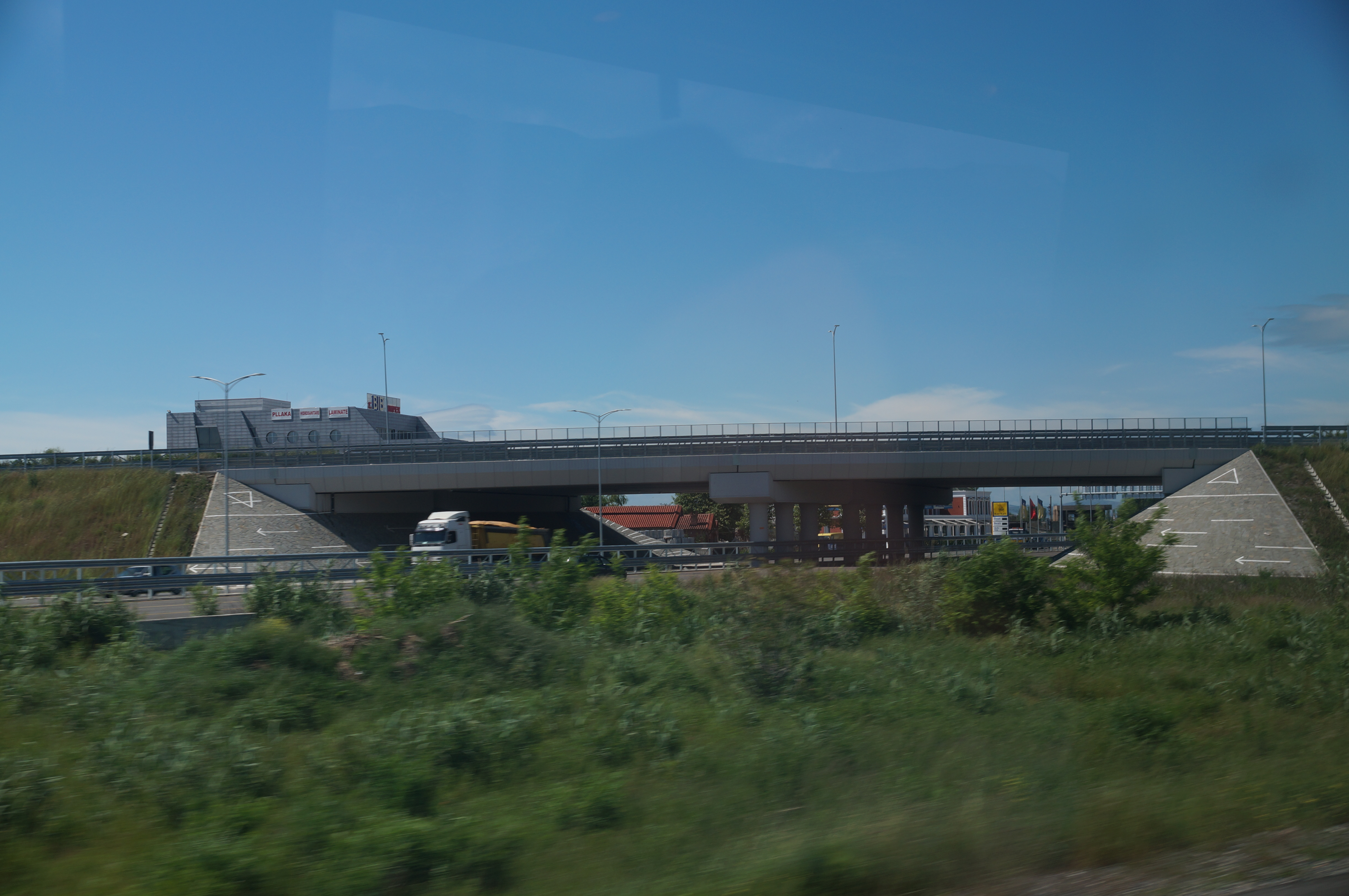 Highway crossing in Milot, Albania